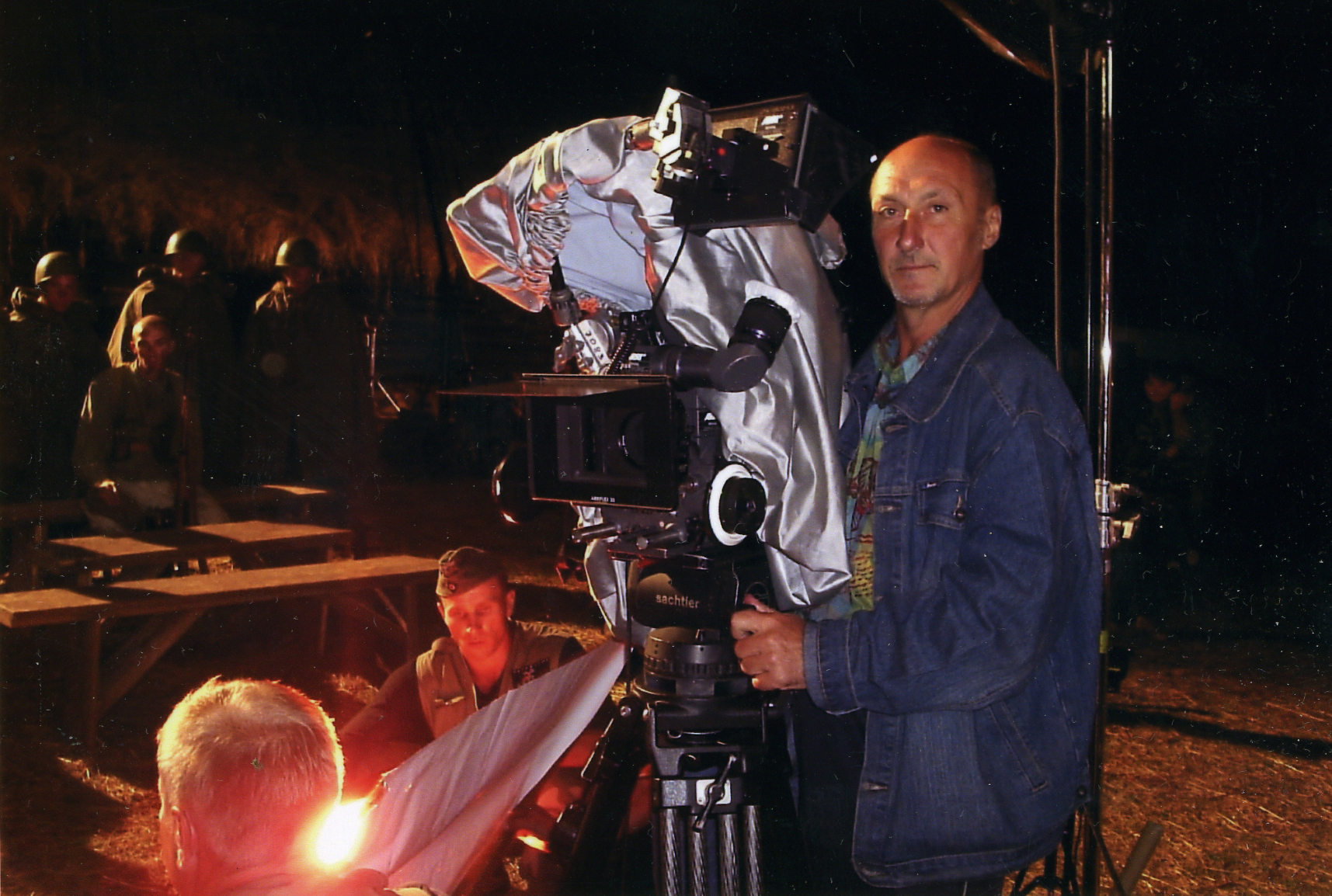 за работой